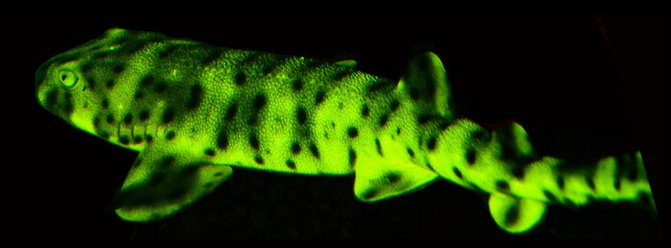 Biofluorescence of swell shark (Cephaloscyllium ventriosum)